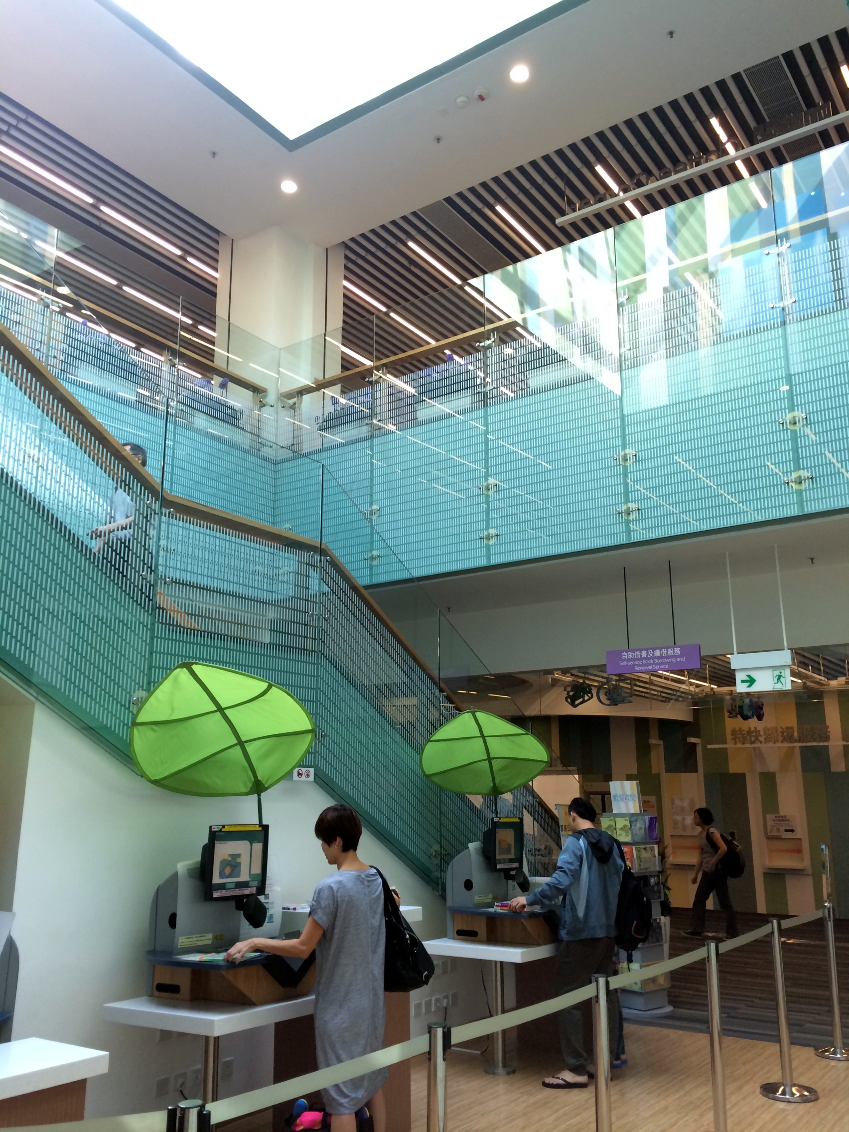 Lam Tin Public Library